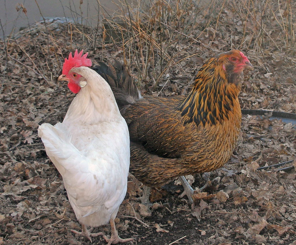 Genetics are responsible for the many differences between chicken breeds.